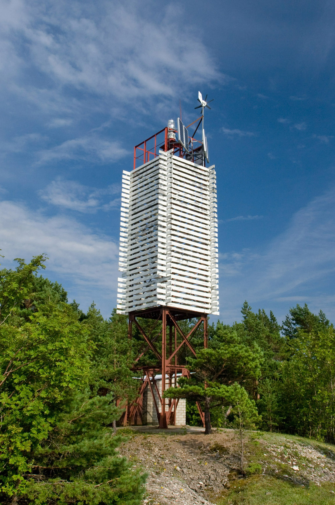 Merise light beacon